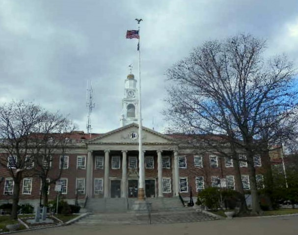 Looking west at Mt Vernon Municipal Building on a cloudy morning.